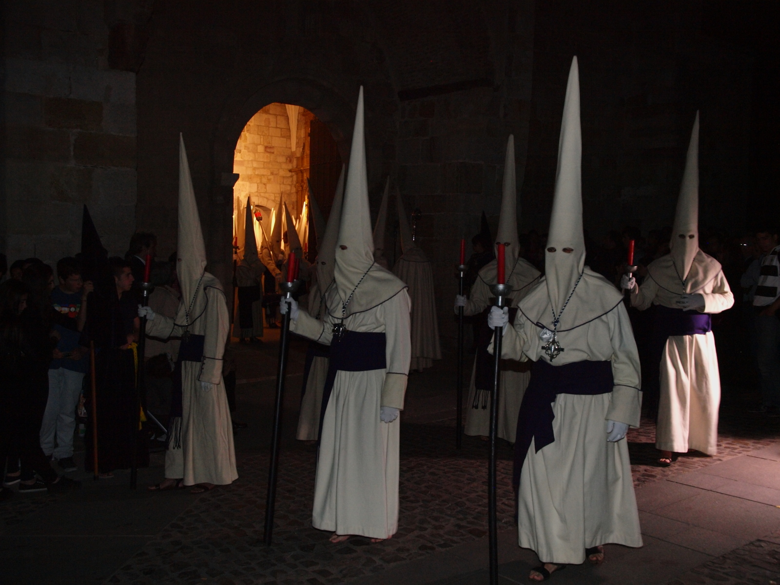 Beginning of the parade of the religious brotherhood of Lying Jesus (Penitente Hermandad de Jesús Yacente), Zamora, Spain, Holy Week